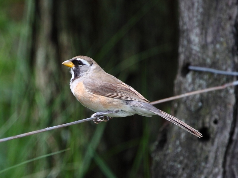 Many-colored Chaco Finch at Capivara - Santa Fe - Argentina